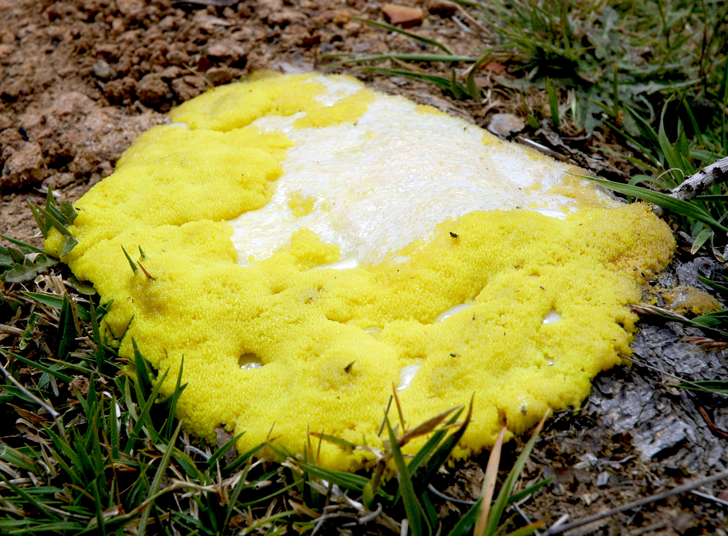 Dog Vomit slime mold, Tasmania. Note the "trail" on the lower right-hand side.